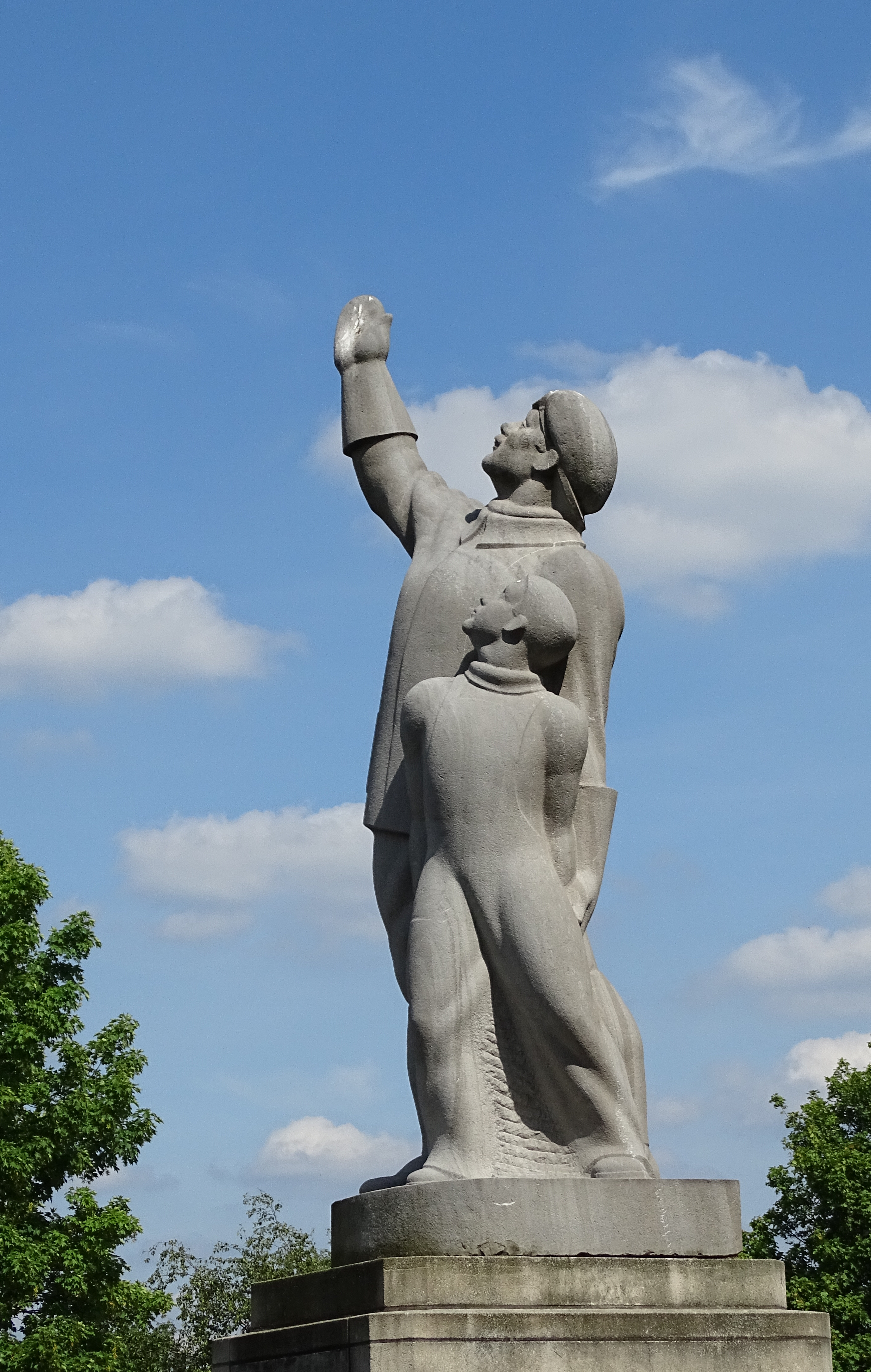 Statue by Willy Kreitz in honour of Jan Olieslagers at Luchthavenlei in Deurne, in front of Antwerp international airport.